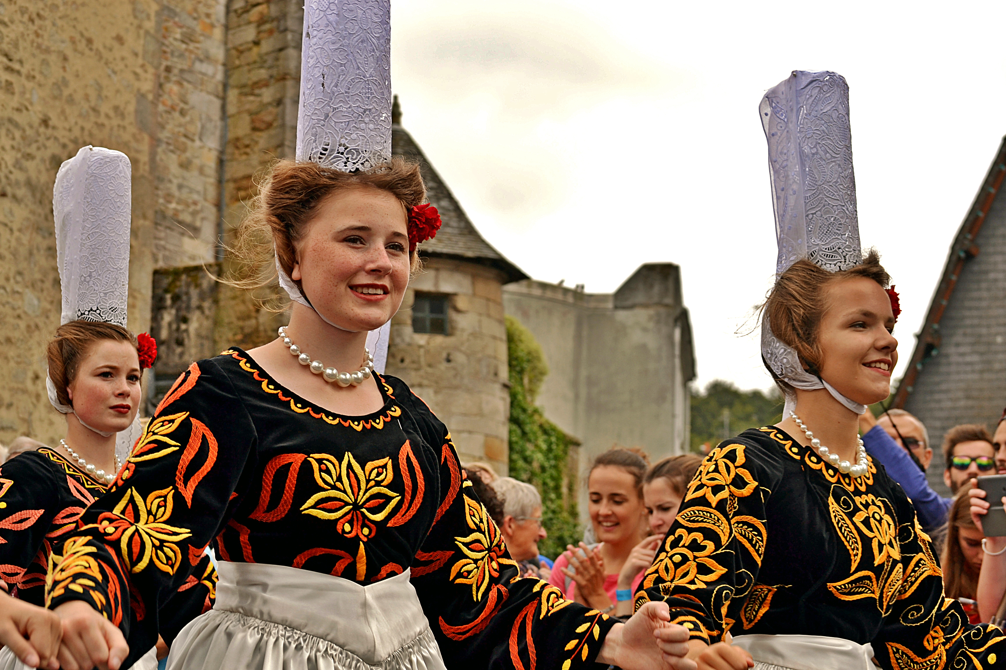 Parade of Breton folk groups during the 2015 Cornouaille festival in the streets of Quimper.